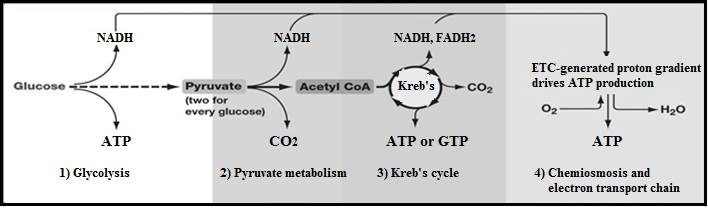 anaerobic respiration